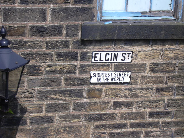 Elgin Street Bacup Elgin Street is the second shortest street in the world at 17ft (5.181m). It is located in Bacup, Lancashire. It held the record until November 2006, when it was discovered that Ebenezer Place, Wick in Caithness, Scotland was shorter at only 2.06m in length Wikipedia